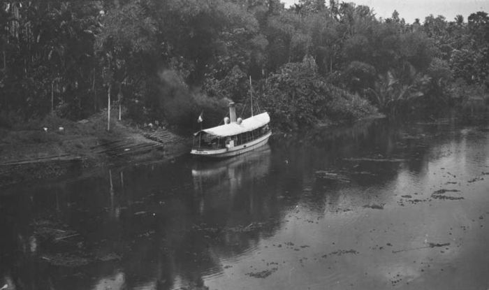 The ship 'Serdang' at Pantonlabu